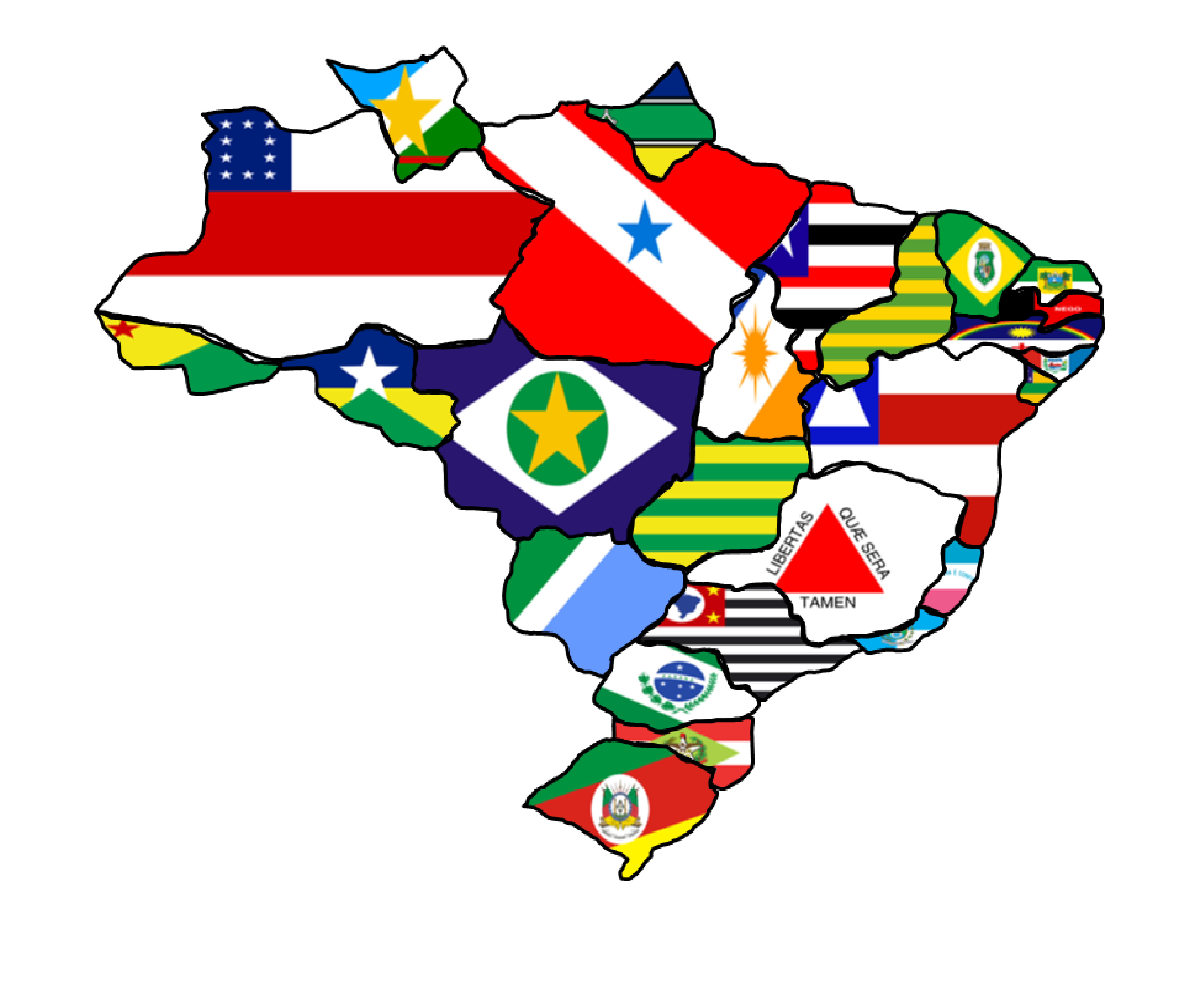 This flag-map is created by the user at Paint